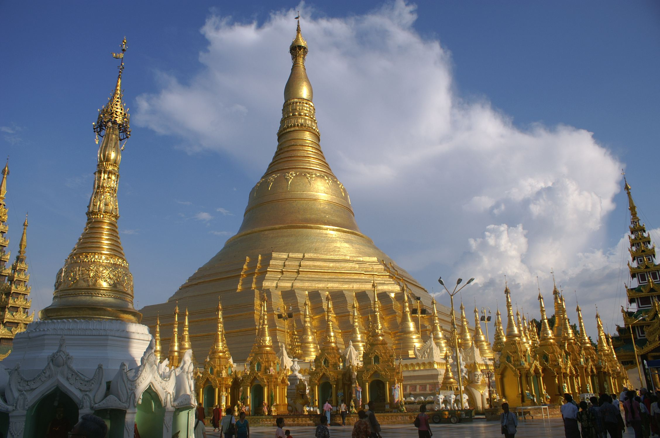 According to tradition, the Shwedagon Pagoda has existed for more than 2,500 years, making it the oldest historical pagoda in Burma and the world According to some historians and archaeologists, however, the pagoda was built by the Mon people between the 6th and 10th centuries CE. The gold seen on the stupa is made of genuine gold plates, covering the brick structure and attached by traditional rivets. Myanmar people all over the country, as well as monarchs in its history, have donated gold to the pagoda to maintain it. The practice continues to this day after being started in the 15th century by the Mon Queen Shin Sawbu, who gave her weight in gold. In Burma people prastise Théravada Buddhism